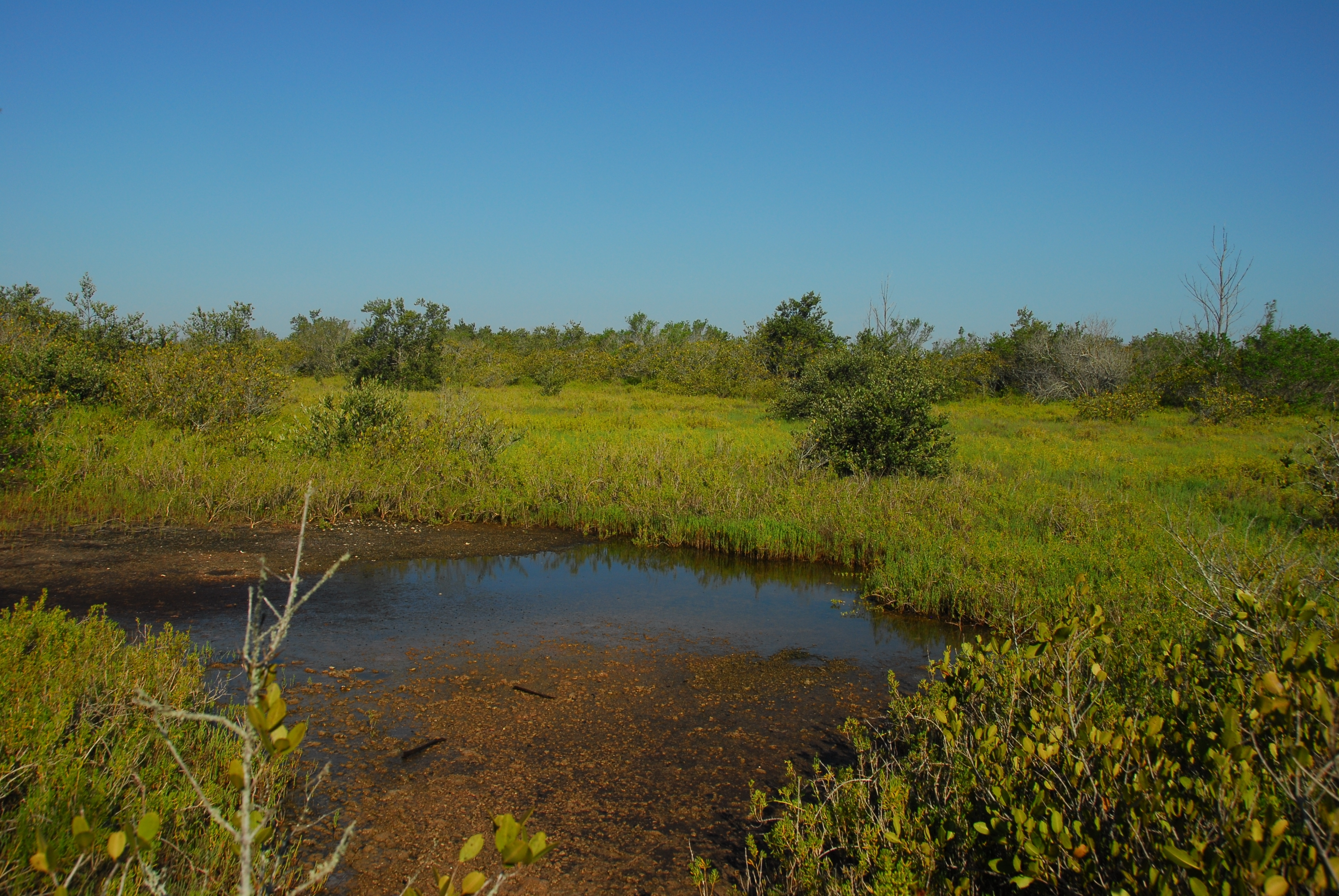 Photograph of flooded ephemeral pond in Thousand Islands, Cocoa Beach, Florida.